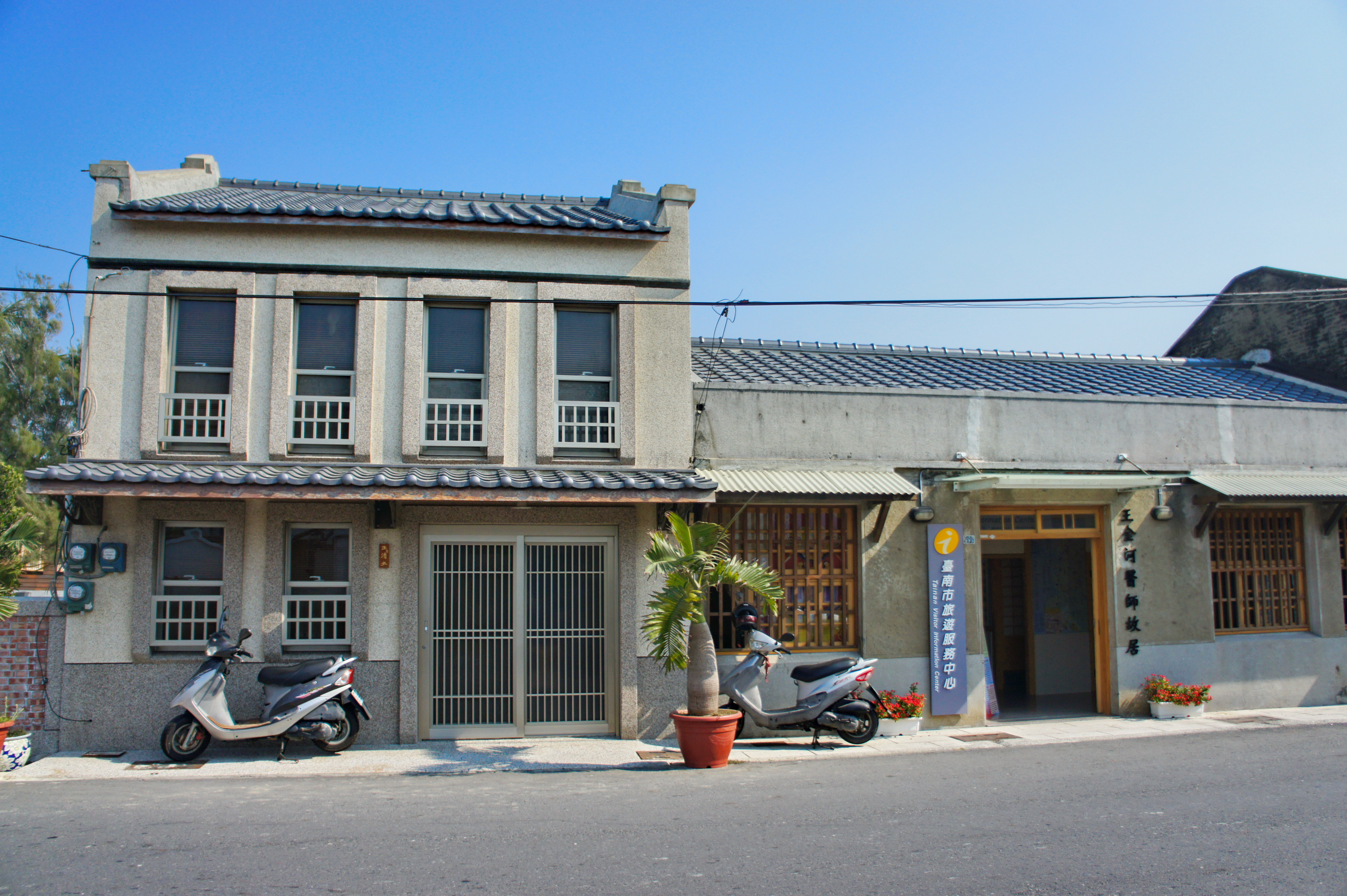 Former residency of Dr. Wang King-Ho, Beimen District,Tainan, Taiwan.